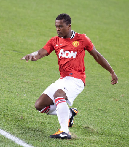 Manchester United footballer Patrice Evra in 2011 MLS all-stars game in the New York, USA.